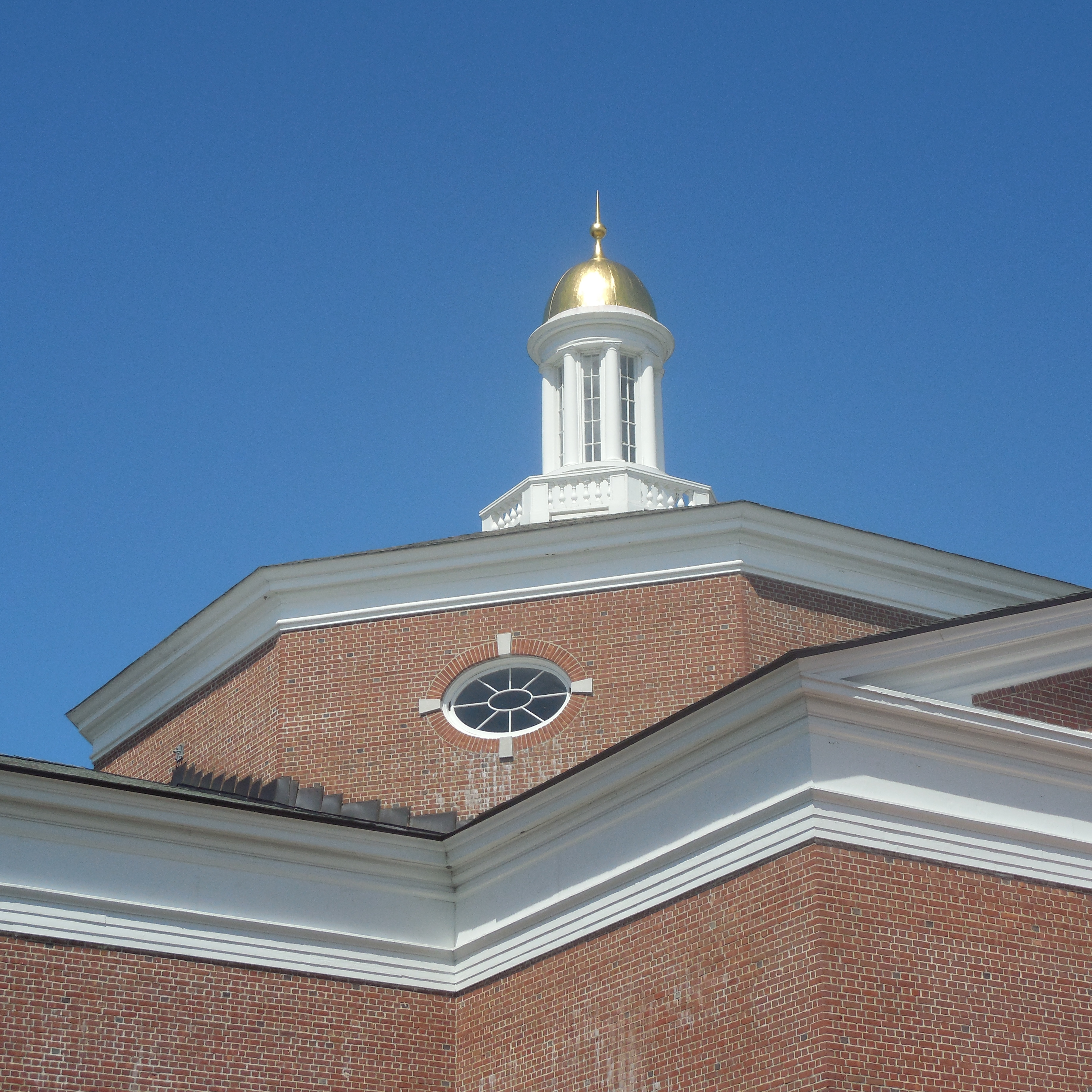 Extending 40 ft. above the roof of the Ira Allen Chapel, from the center of the main structure (e.g. the intersection of the nave and the transepts) is a low hexagonal dome topped with an eight-windowed lantern with a golden cupola. Built in 1926 (Architects: McKim, Mead & White).